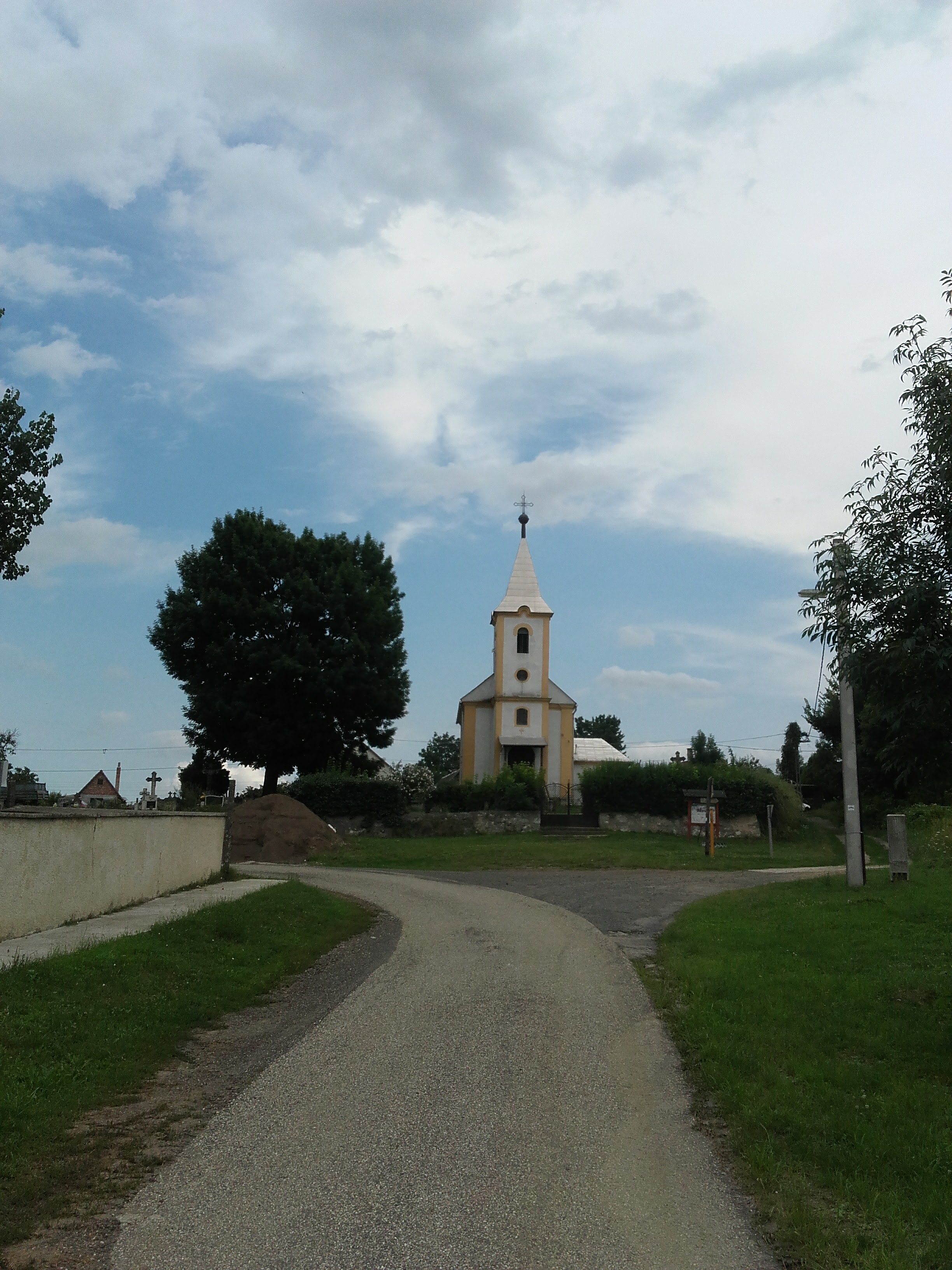 The Catholic church of Hernádcéce, Hungary